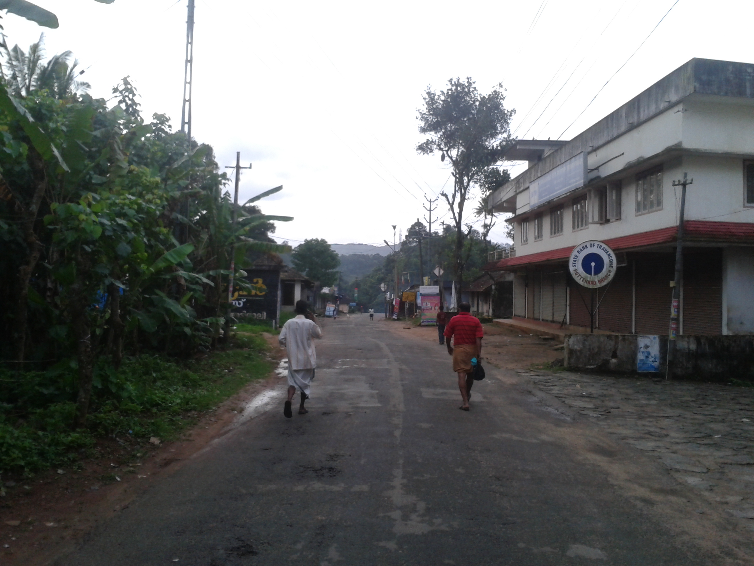 A morning snap taken from Pottankad street